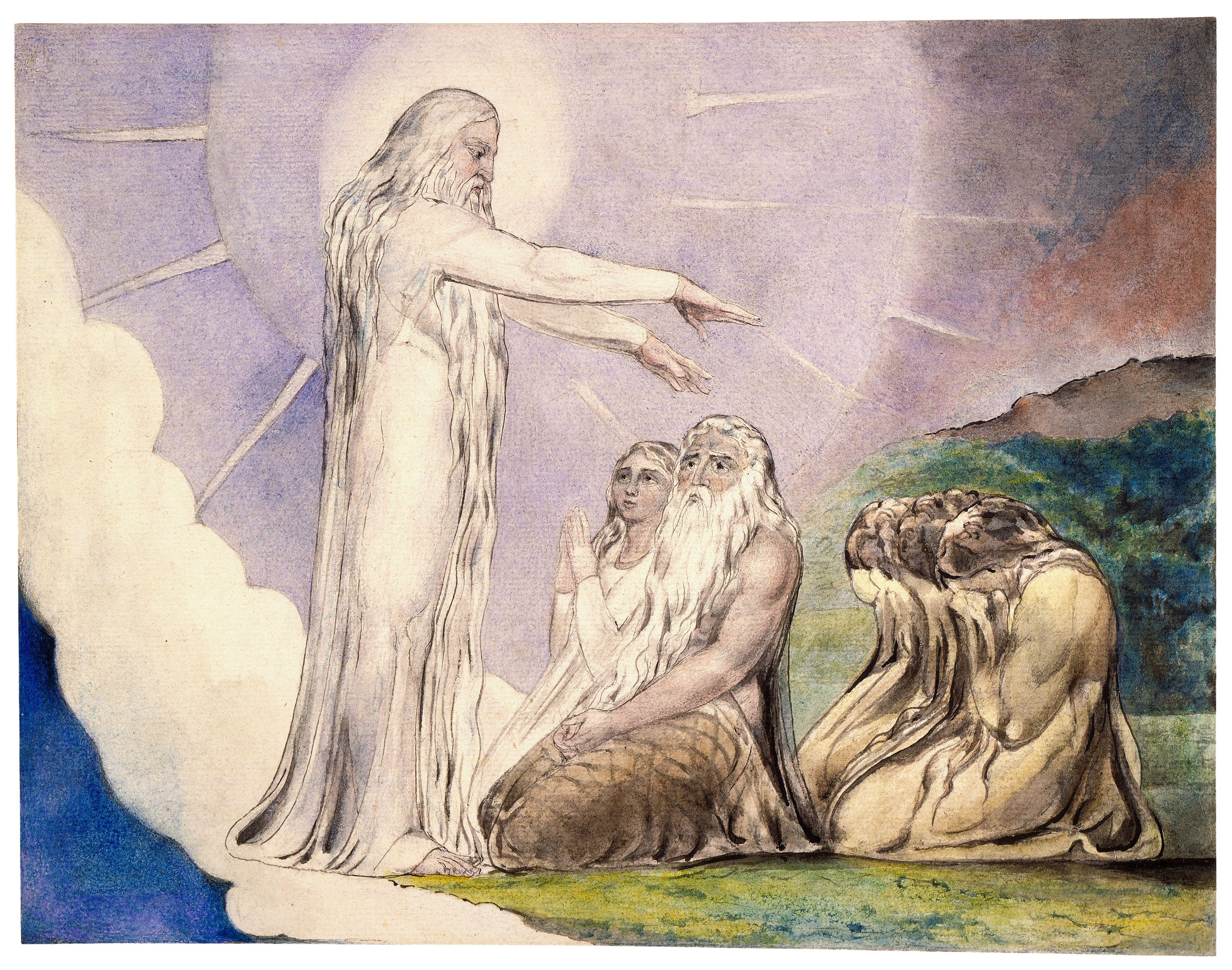 The Vision of Christ, from the Butts set. Pen and black ink, gray wash, and watercolour, over traces of graphite